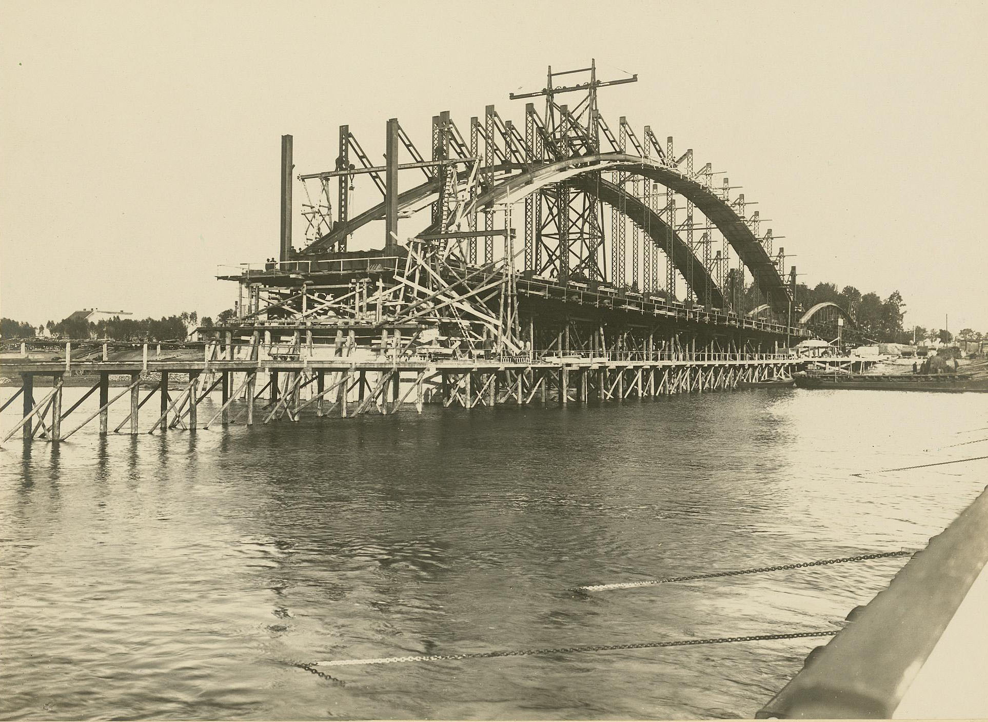 Queen Louise bridge building 1905-1908